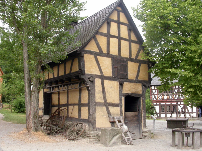 Hessenpark, Hessen, Germany. Old Forge.